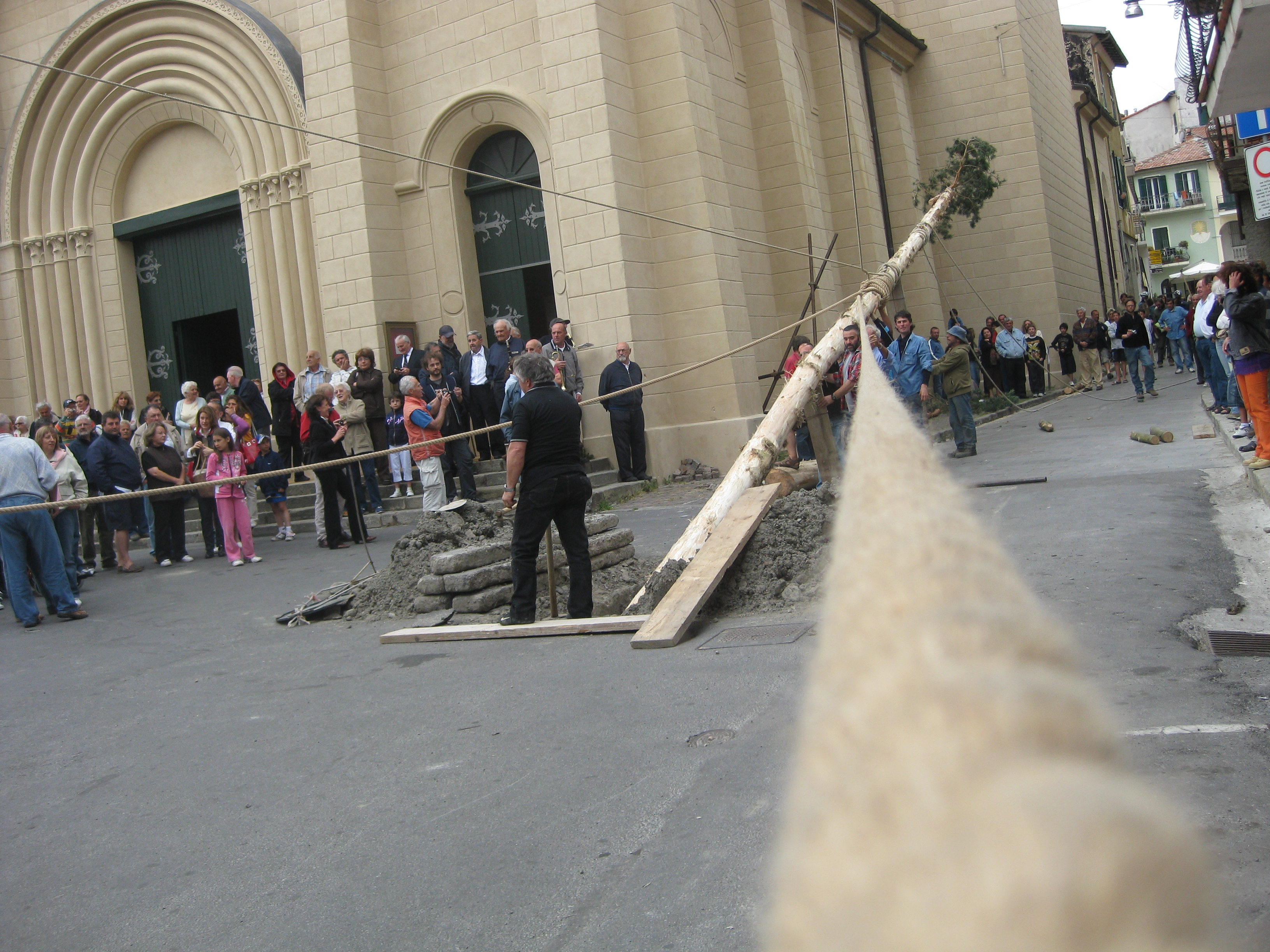 The "Ra Barca's" mast uplifting